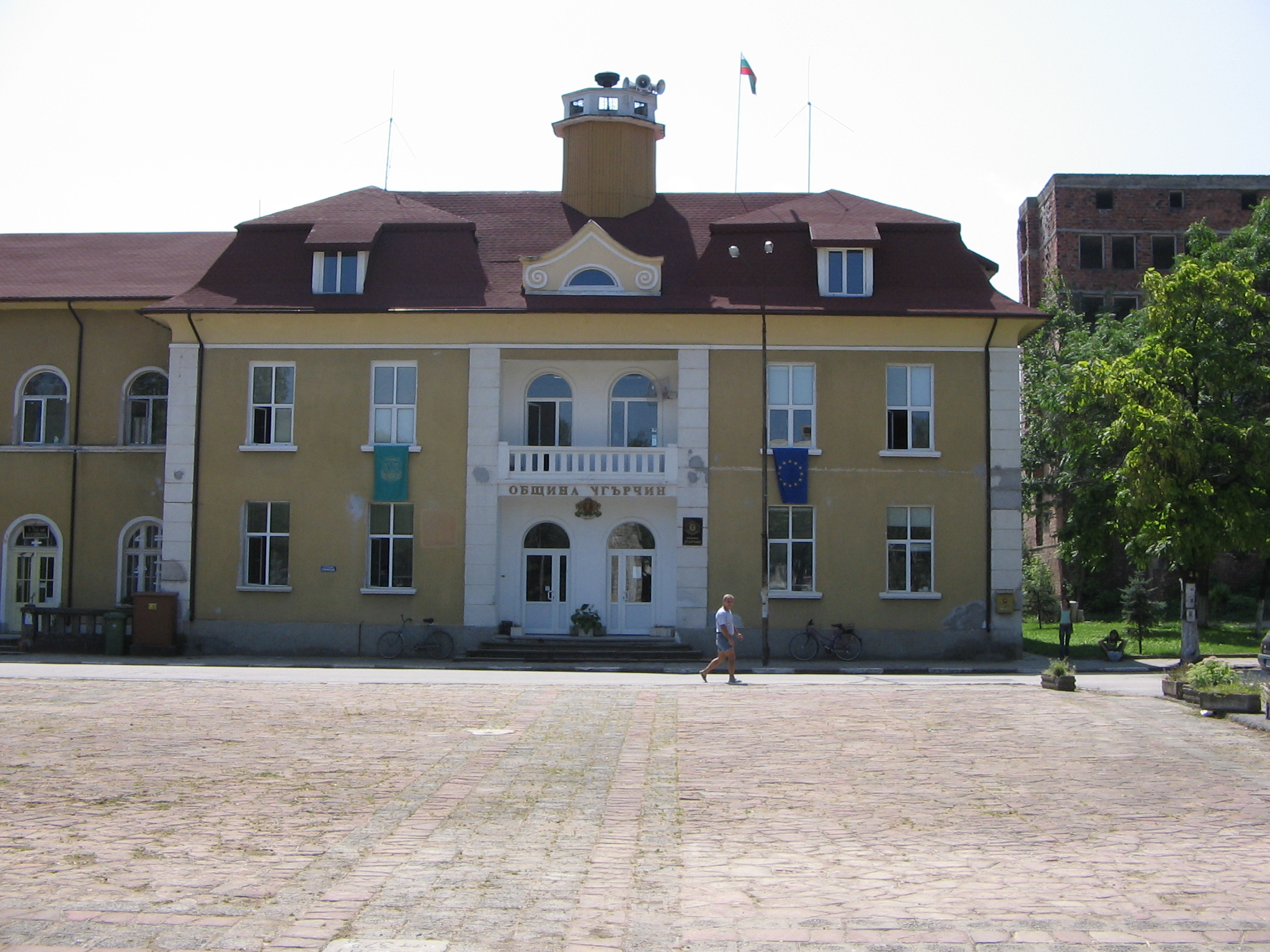 The municipality building in town Ugarchin, Bulgaria